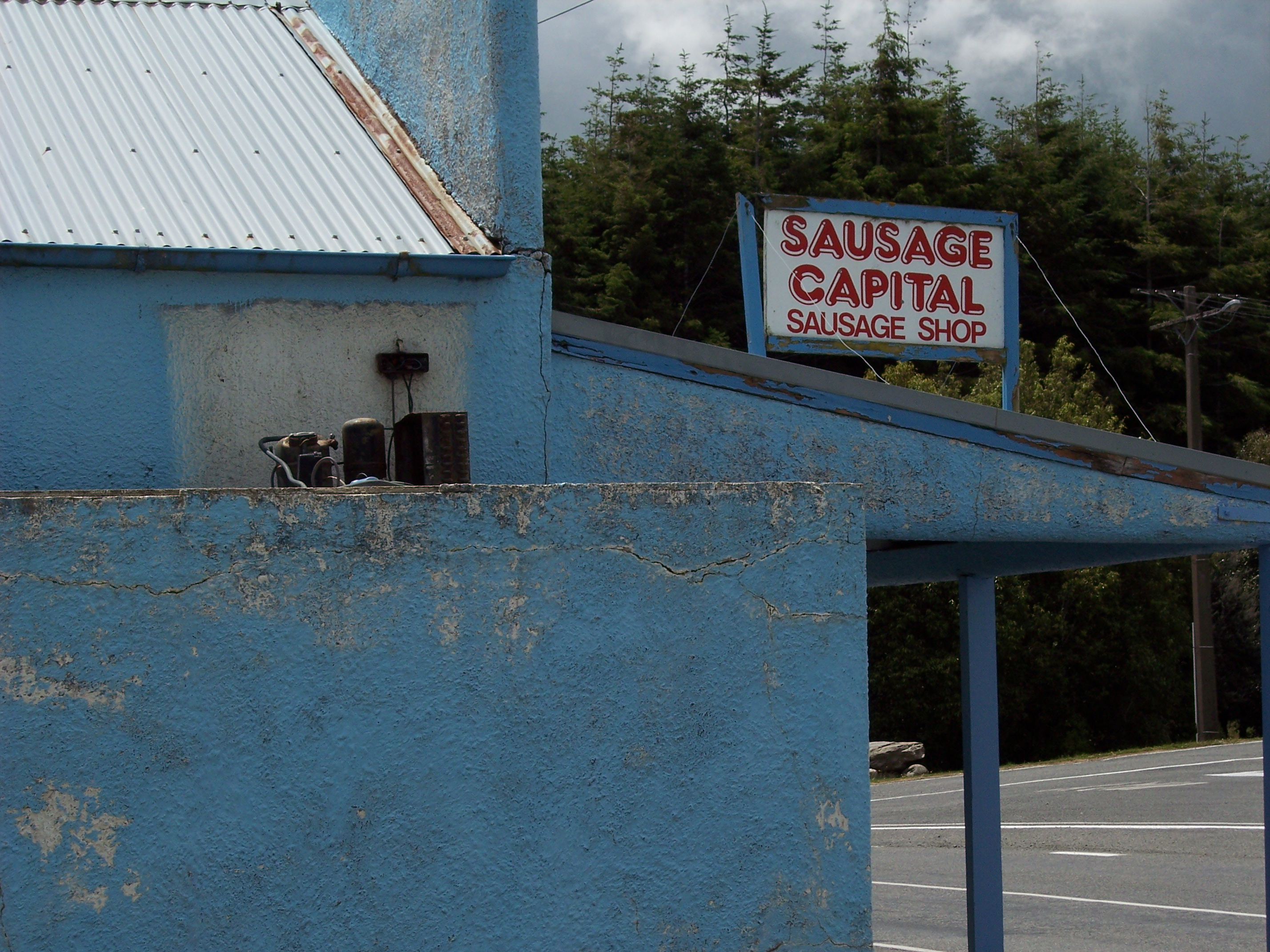 Tuatapere, New Zealand's "World Sausage Capital"